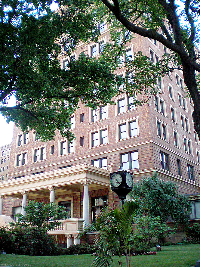 The William Pitt Union, Forbes Avenue Side, at the University of Pittsburgh. photo by Michael G White